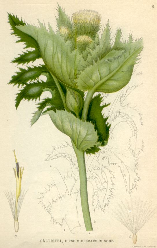 piece of stalk with leaf grentopp med korgar flower (3/1) fruit (2/1).